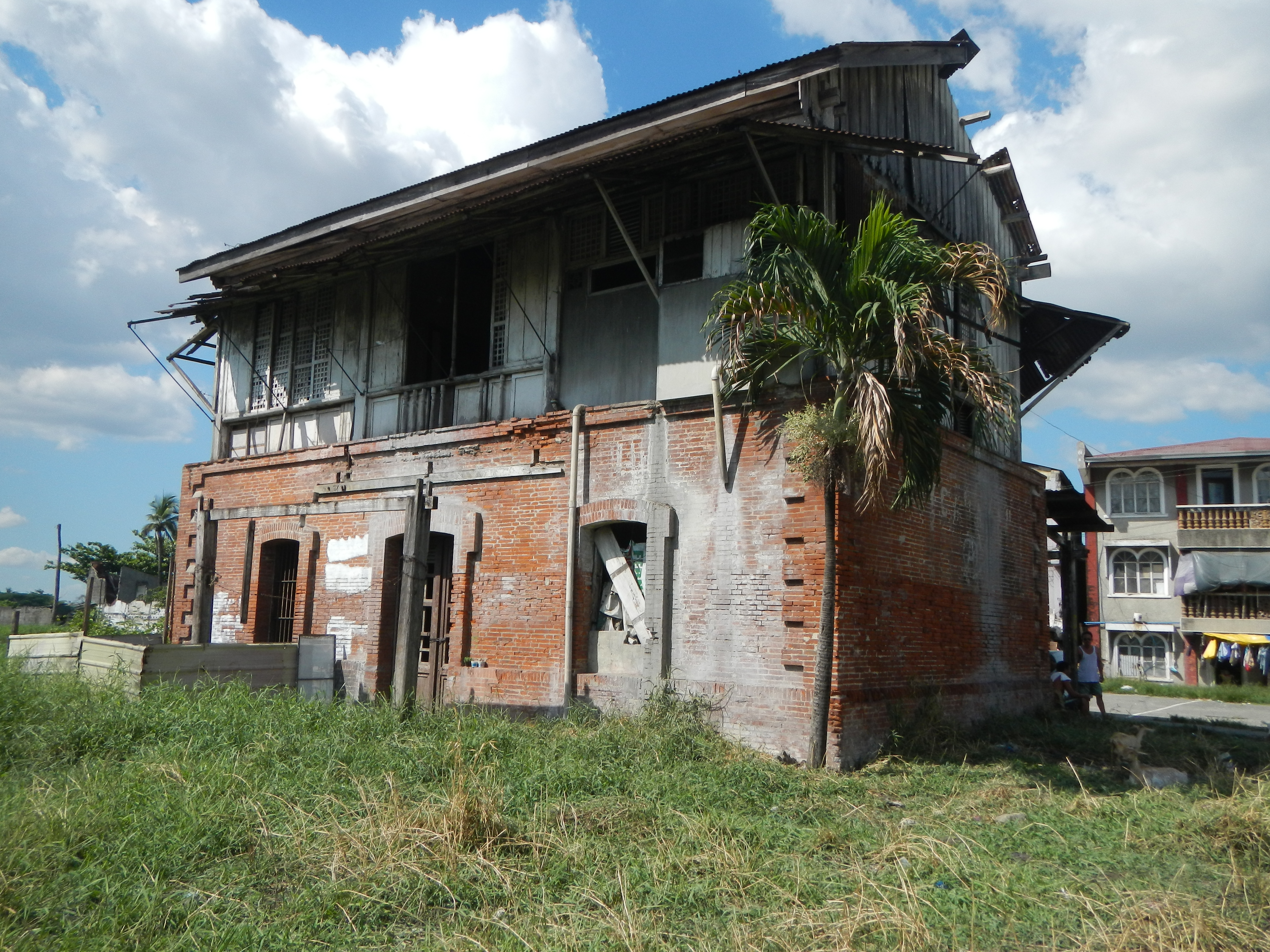 Old PNR - Meycauayan station Barangay Malhacan, Meycauayan City, Bulacan beside MacArthur Highway - List of Philippine National Railways stations Philippine National Railways Bulacan.